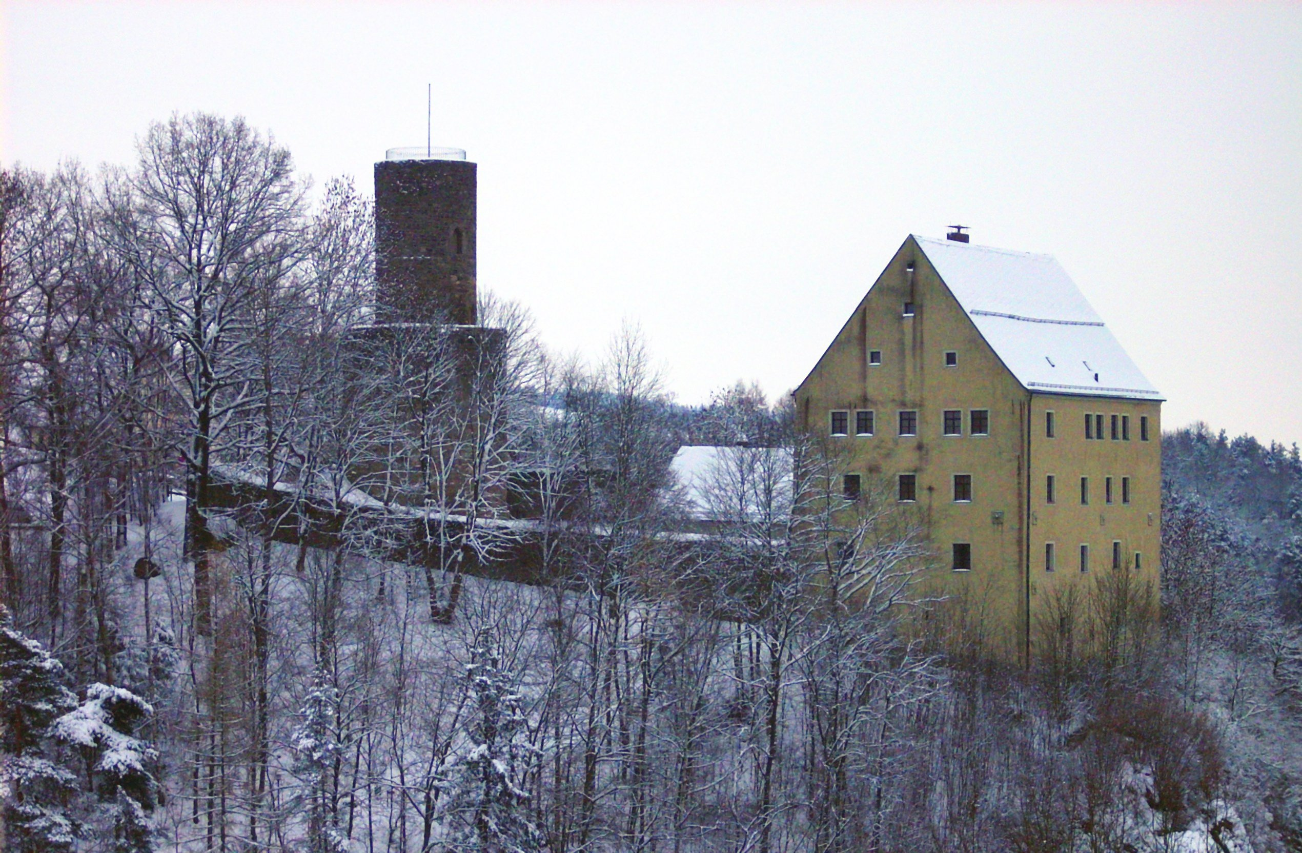 Photo of the castle Neuhaus in Windischeschenbach, Germany